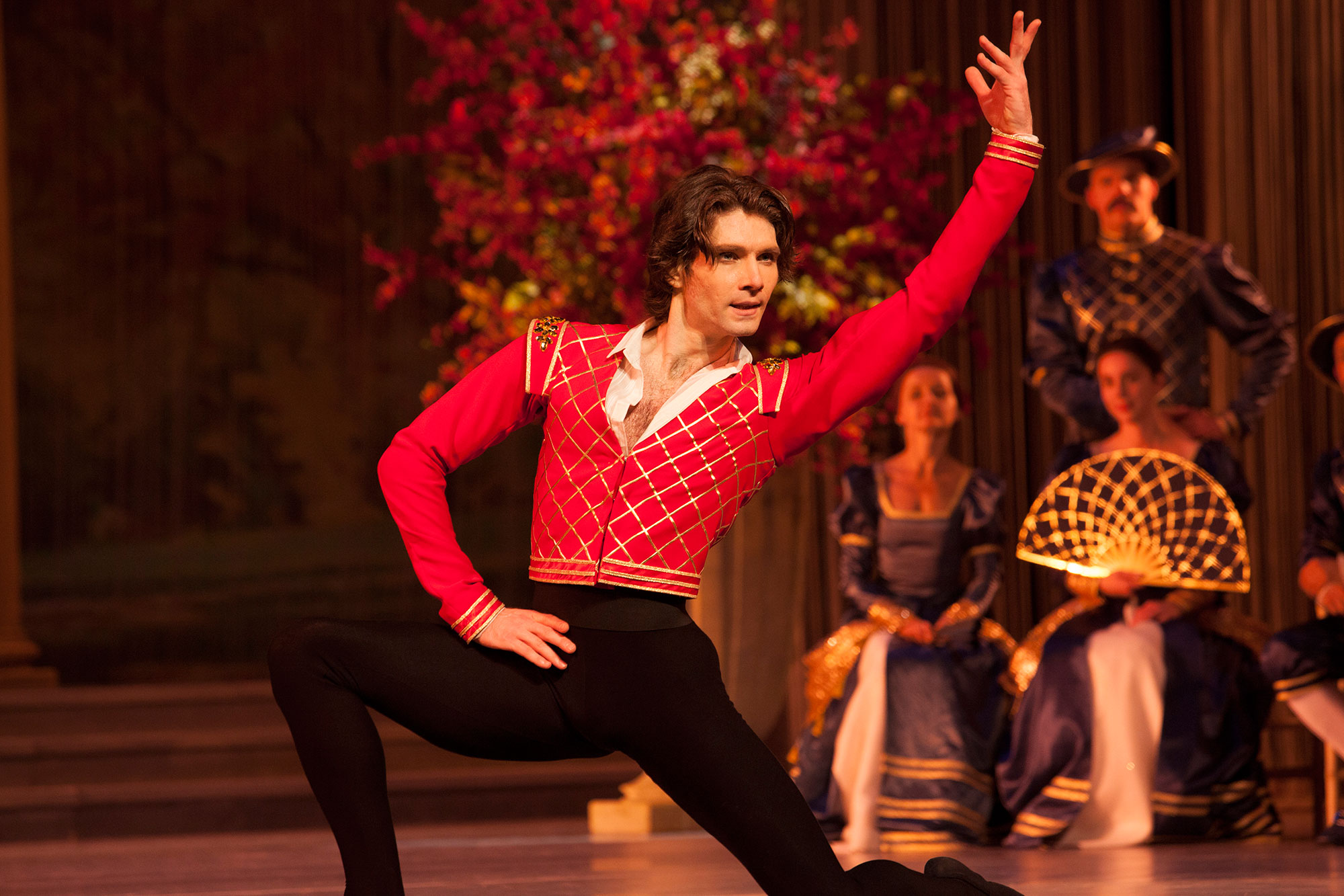 Vladimir Yaroshenko (Basilio), "Don Quixote" by Alexei Fadeyechev after Marius Petipa, Polish National Ballet